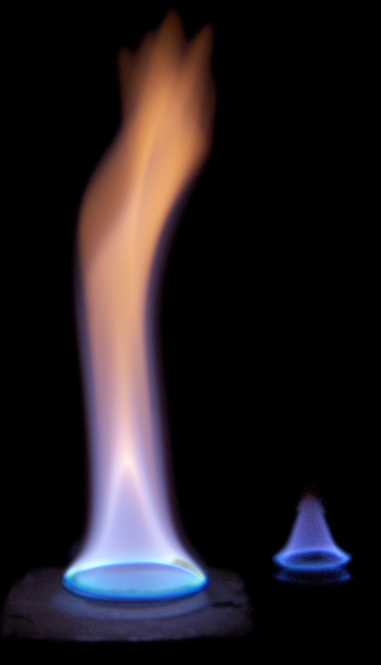 Alcohol (Finlandia Vodka) burns with a blue flame Image by user:tuohirulla